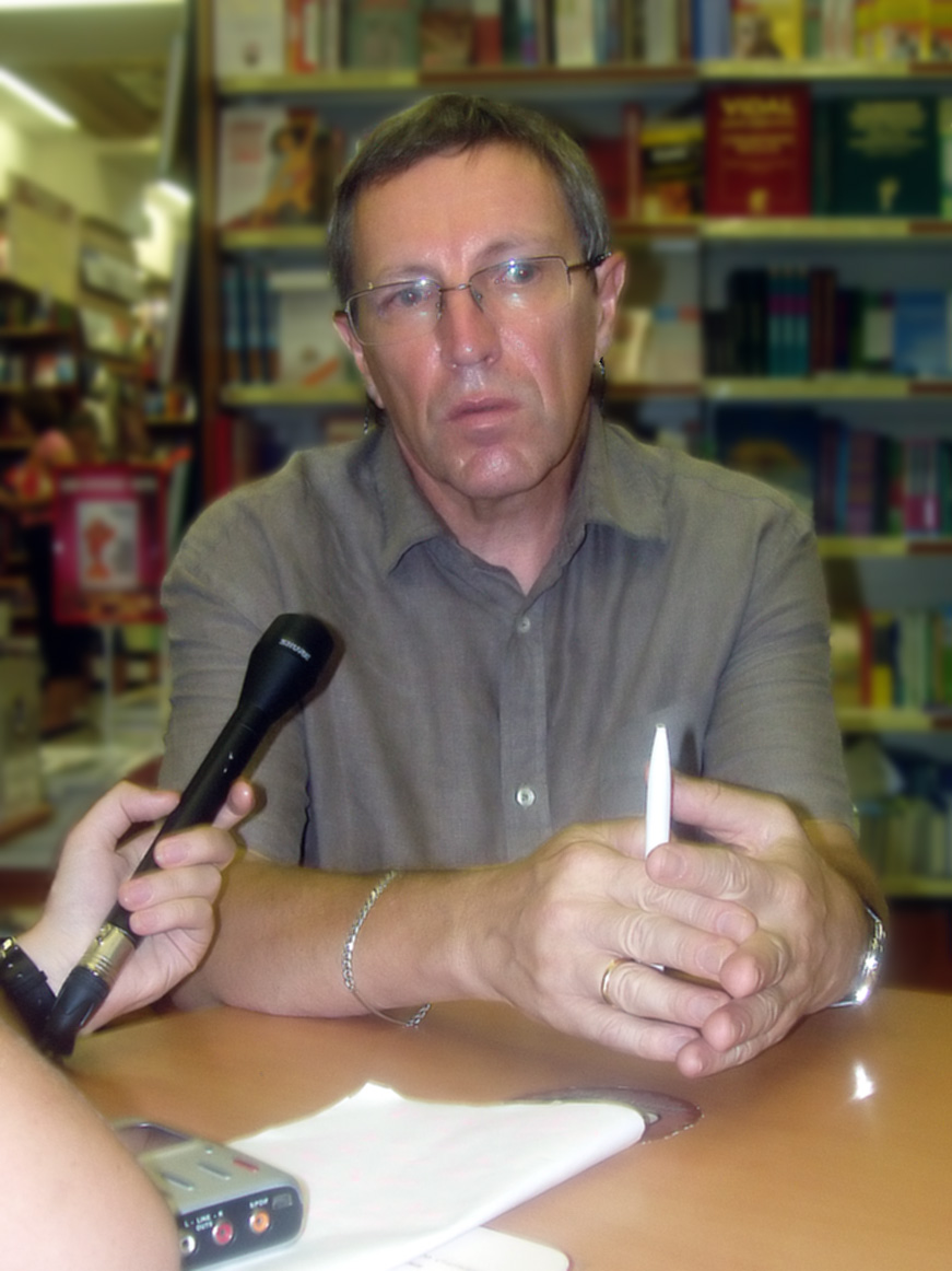 Andrei Plakhov, Russian film critic and historian of cinema (interview)